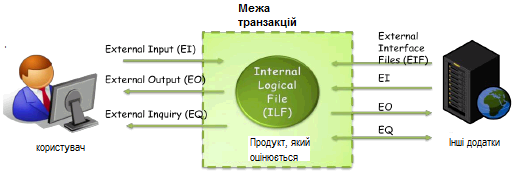 This work is based on a work in the public domain. It has been digitally enhanced and/or modified. This derivative work has been (or is hereby) released into the public domain by its author, :User:| . This applies worldwide. In some countries this may not be legally possible; if so: :User:| grants anyone the right to use this work for any purpose, without any conditions, unless such conditions are required by law.